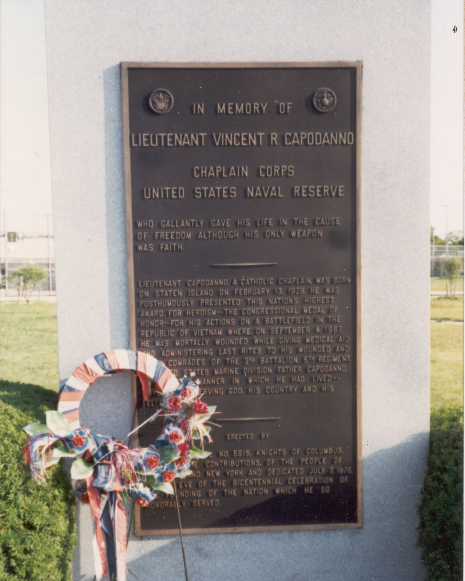 Although I cannot remember the exact date, I personally took this photo myself, I believe sometime in the 1990s. I still live very close to the location, so I can take a new photo at any time. The monument is located at the corner of Sand Lane and Father Capodanno Boulevard, in Staten Island, New York. (Seaside Boulevard had been renamed in Father Vincent's honor, I believe in 1976.) I will look through my files to verify the specific dates. I hereby release this photo into the public domain.